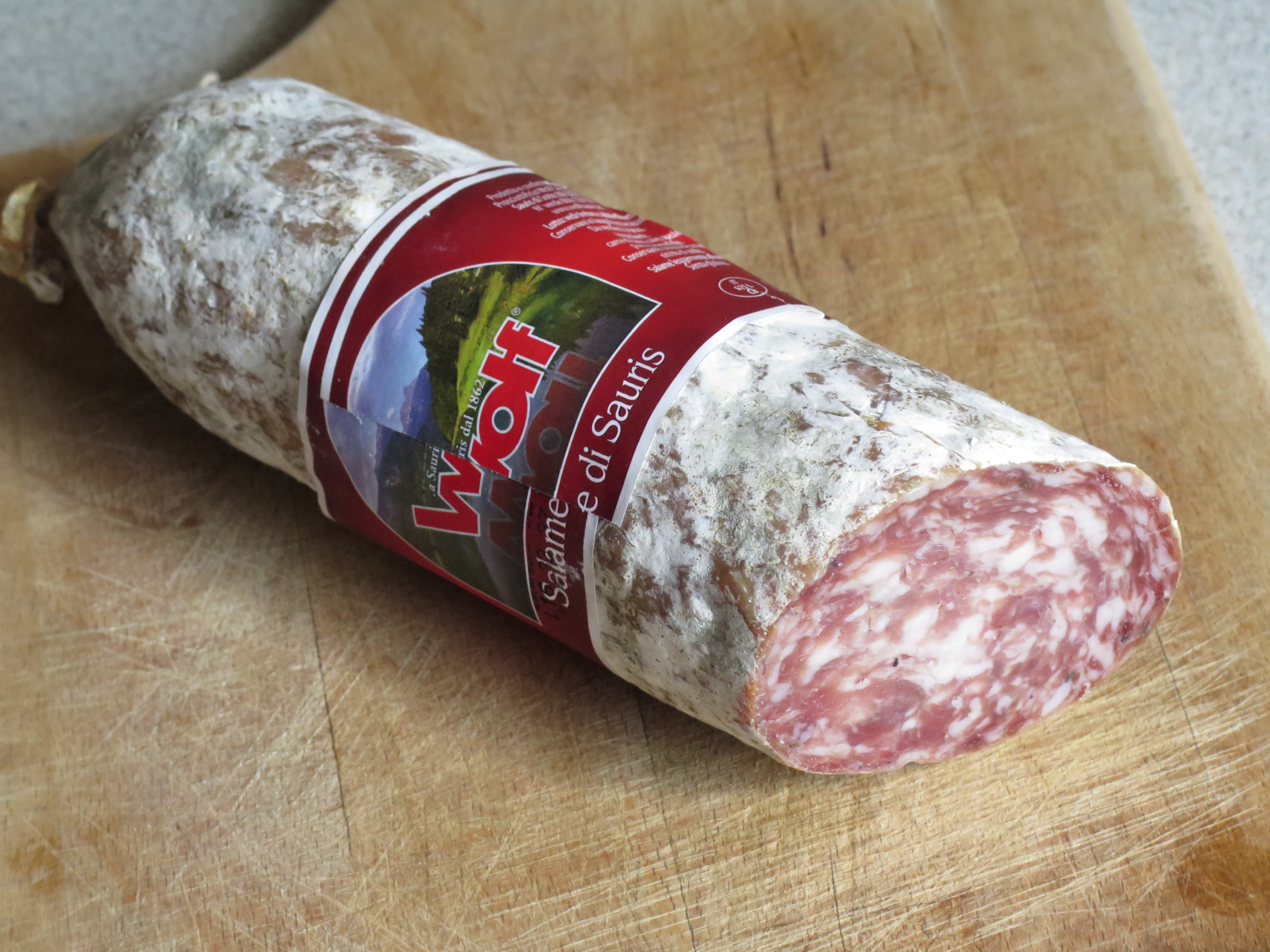 Salami produced in Sauris